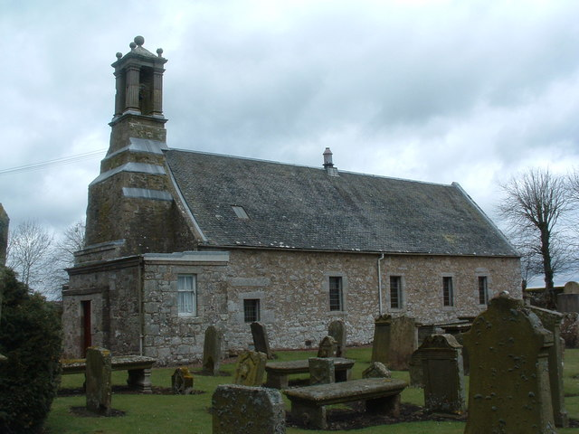 Pettinain Church. A quaint little building, curious design.. for more info.